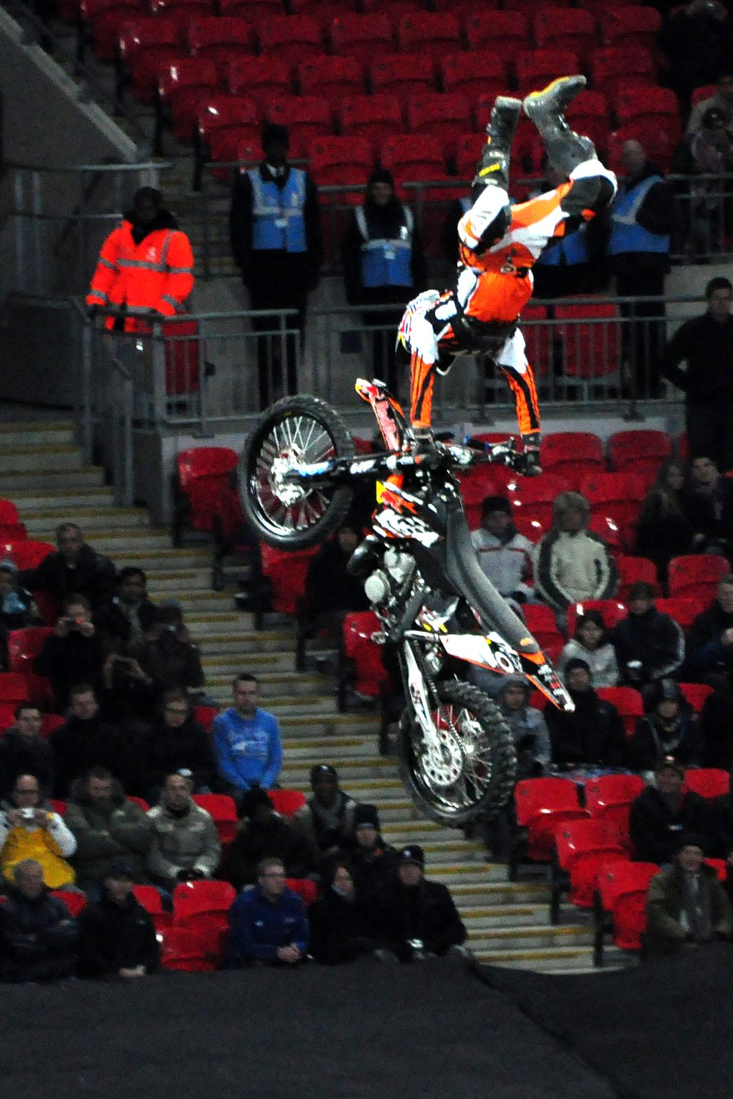 Red Bull X-fighters at 2008 Race of Champions, Wembley Stadium